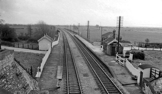 Bleadon & Uphill Station. View southward, towards Taunton; ex-GWR Bristol - Taunton - Exeter main line, closed 5/10/64.